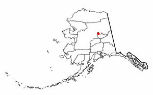 Adapted from Wikipedia's AK borough maps by Seth Ilys.